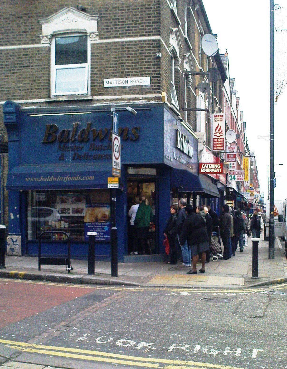 Butcher at Green Lanes, Harringay, London Christmas